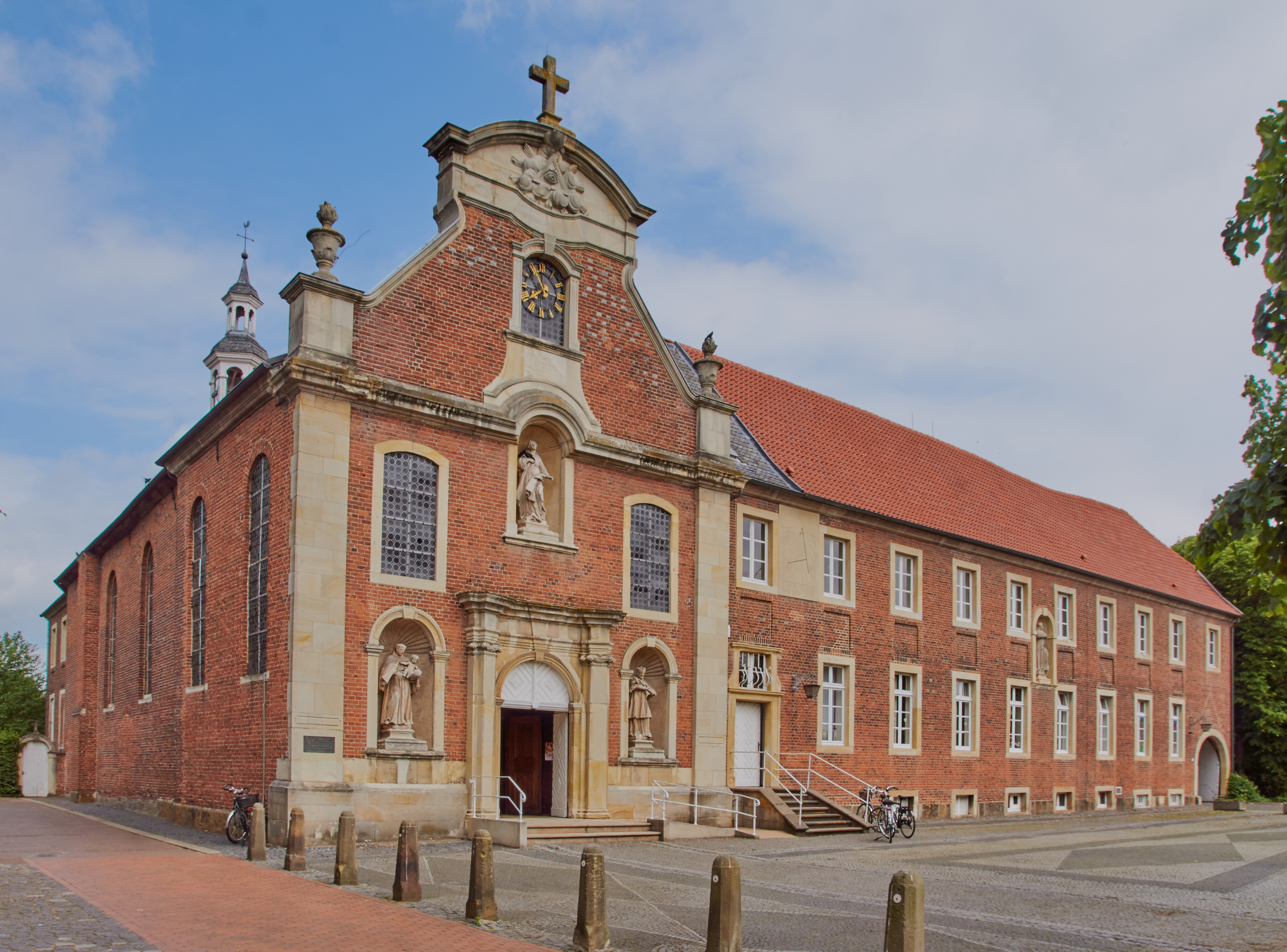 Franziskanerkonvent und Kirche St. Marien in Gemen, Borken This is a photograph of an architectural monument. I 23